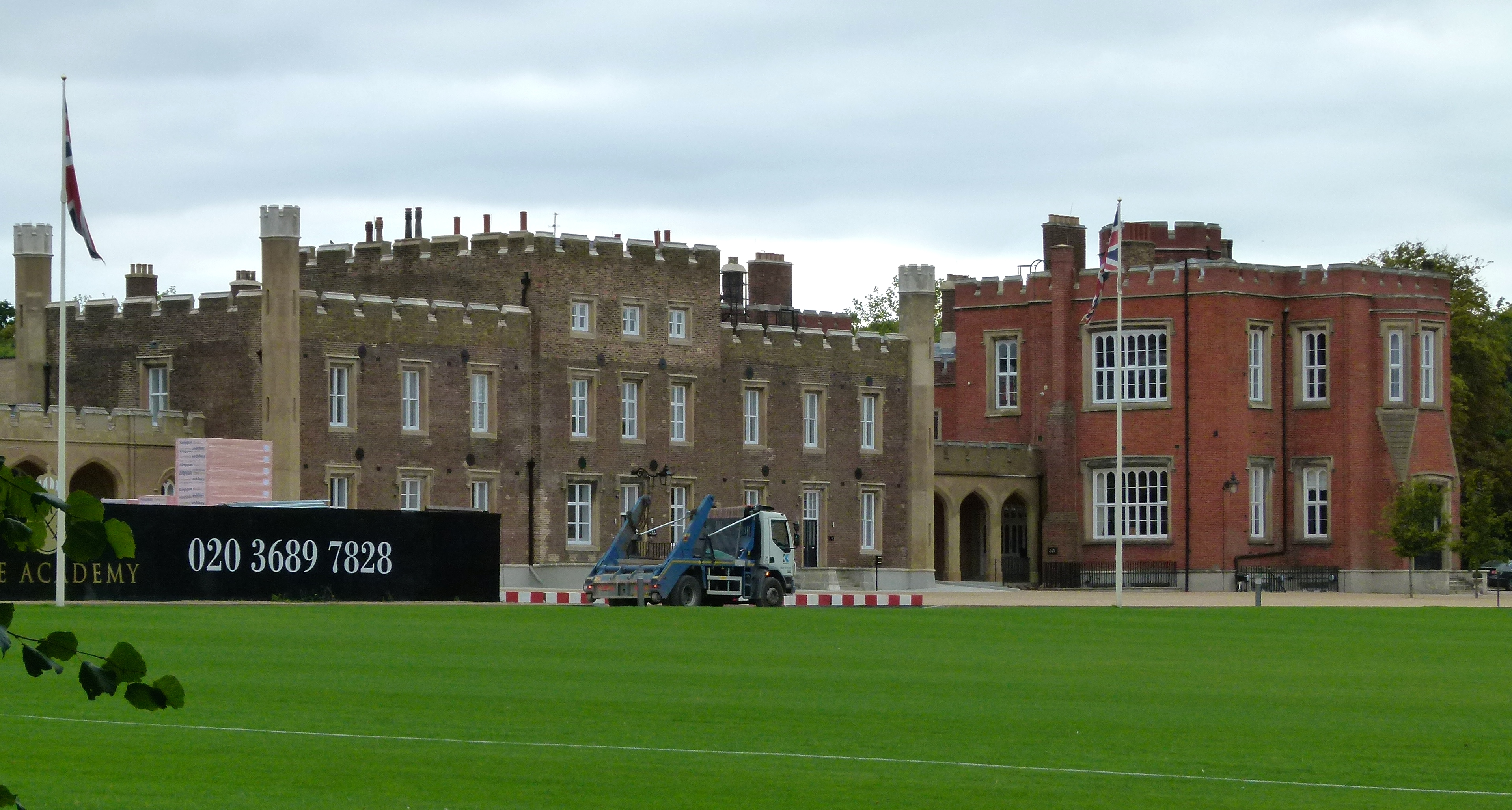 Detail of the former Royal Military Academy in Woolwich, South East London.